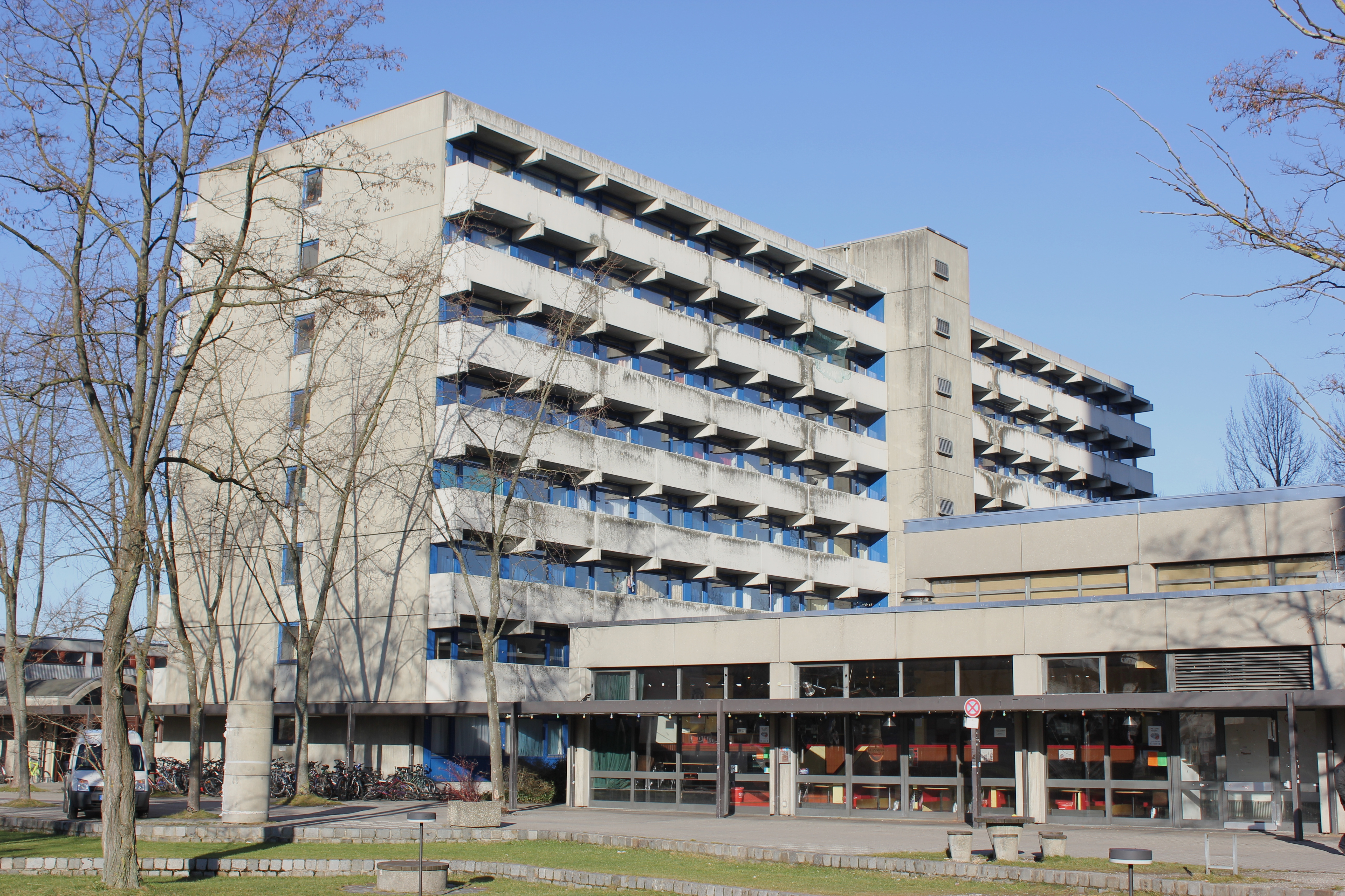 Studentenstadt Freimann in Munich Blaues Haus